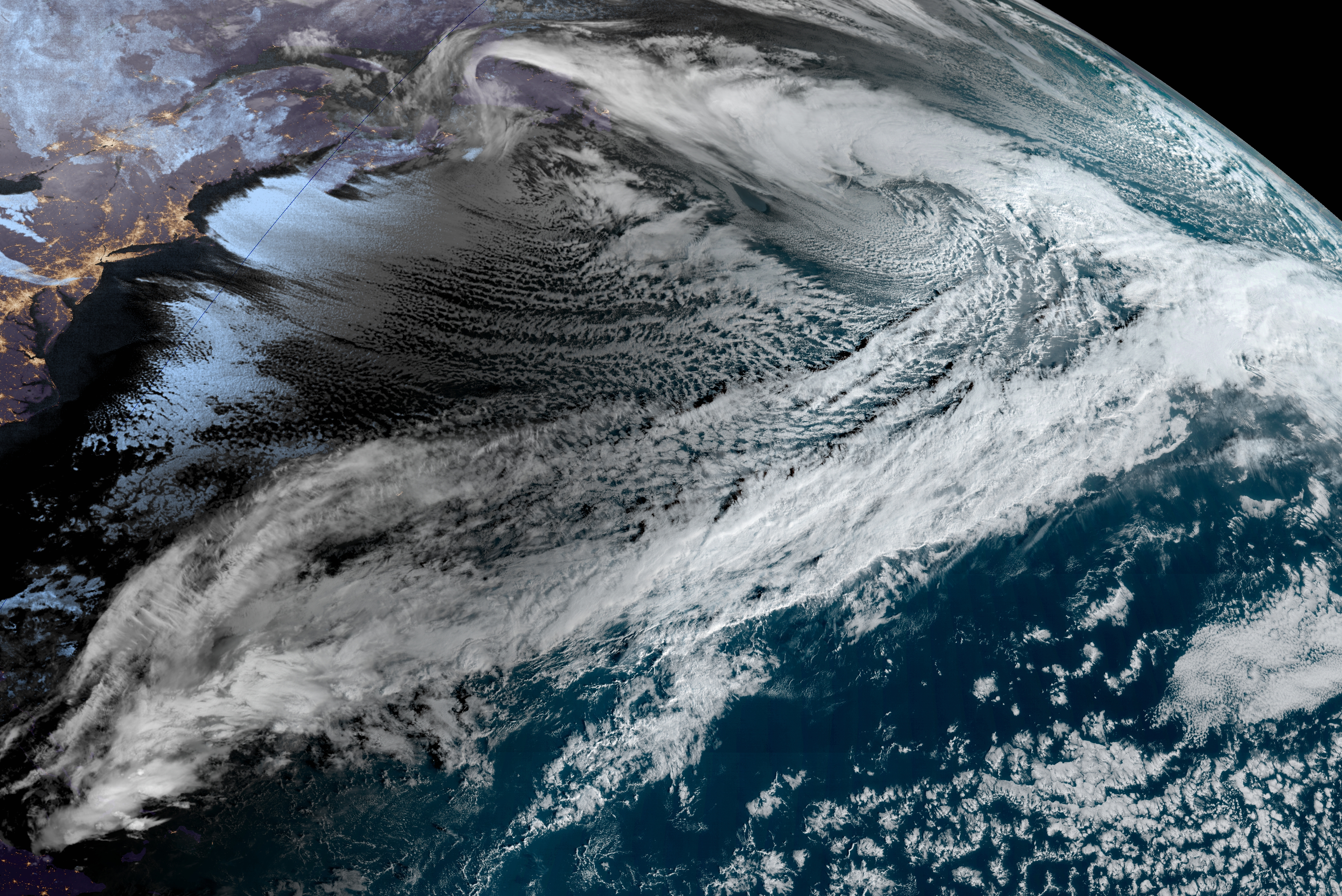 Storm Fabien, of the 2019-20 European windstorm season, above the Atlantic Ocean. Note: on the original, fulldisk image (archived), a green-blue curve of pixels is present, spanning east of Greenland to about half-way the Atlantic. This was not added by the editing software used.